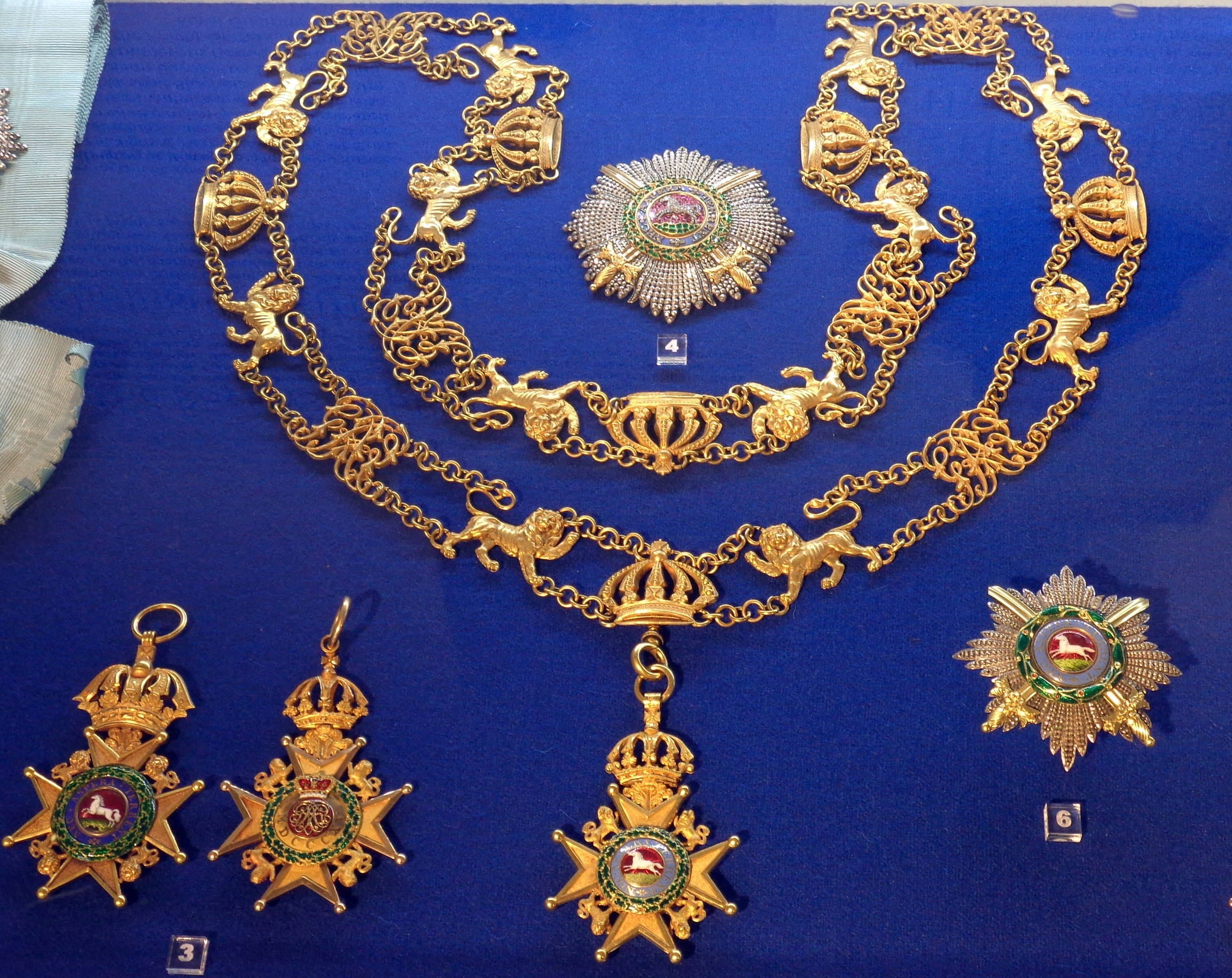 Royal Guelphic Order, collar, badge and star. Kingdom of Hannover and United Kingdom. The exhibition of the Tallinn Museum of Orders of Knighthood, Estonia.